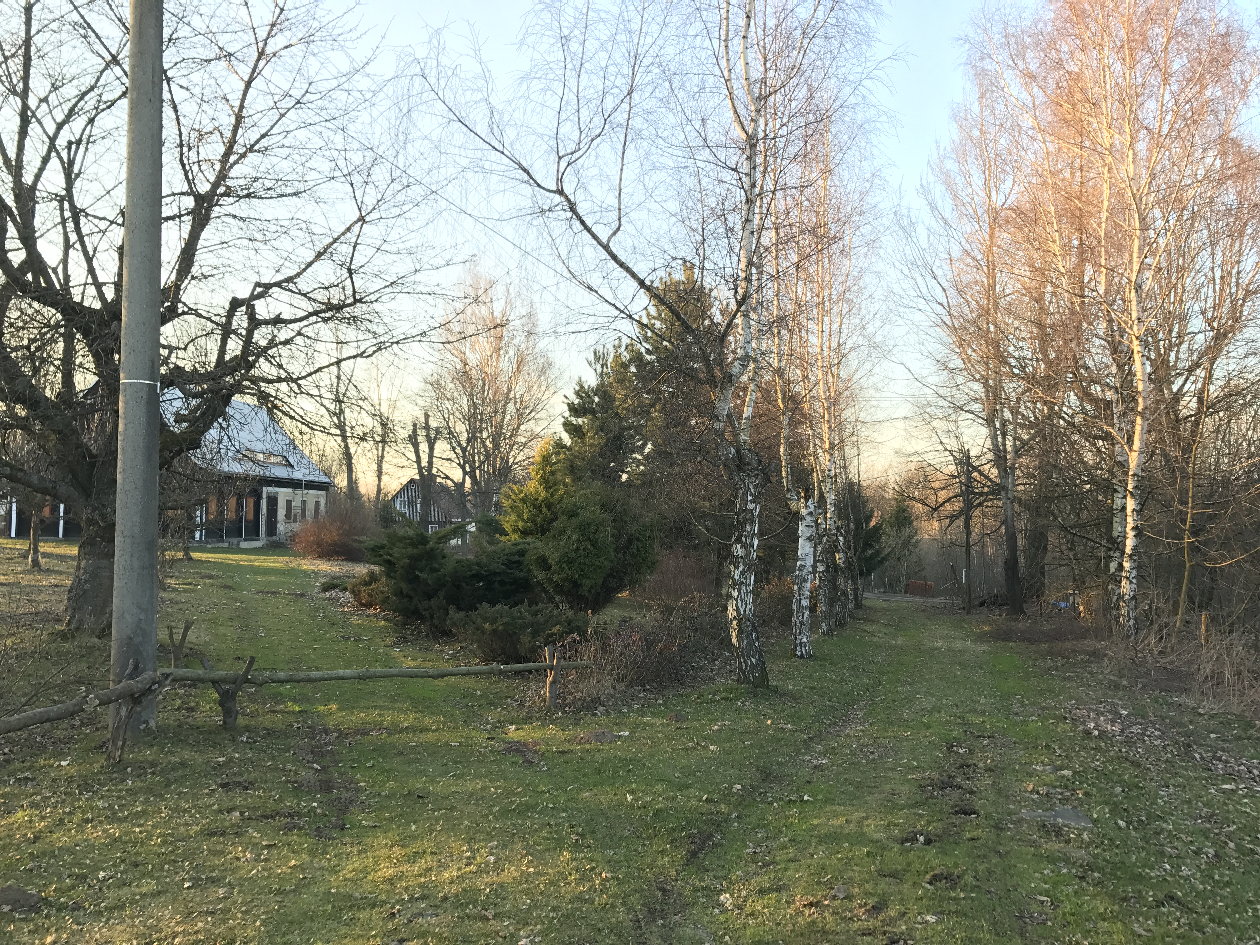 Houses in Světliny 1. díl, Varnsdorf, Děčín District.